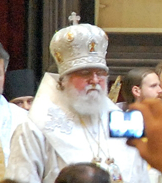 Turin, holy shroud